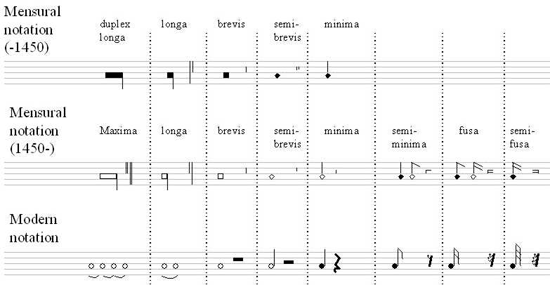 Mensural notation - black and white Zman 18:35, 3 June 2006 (UTC)